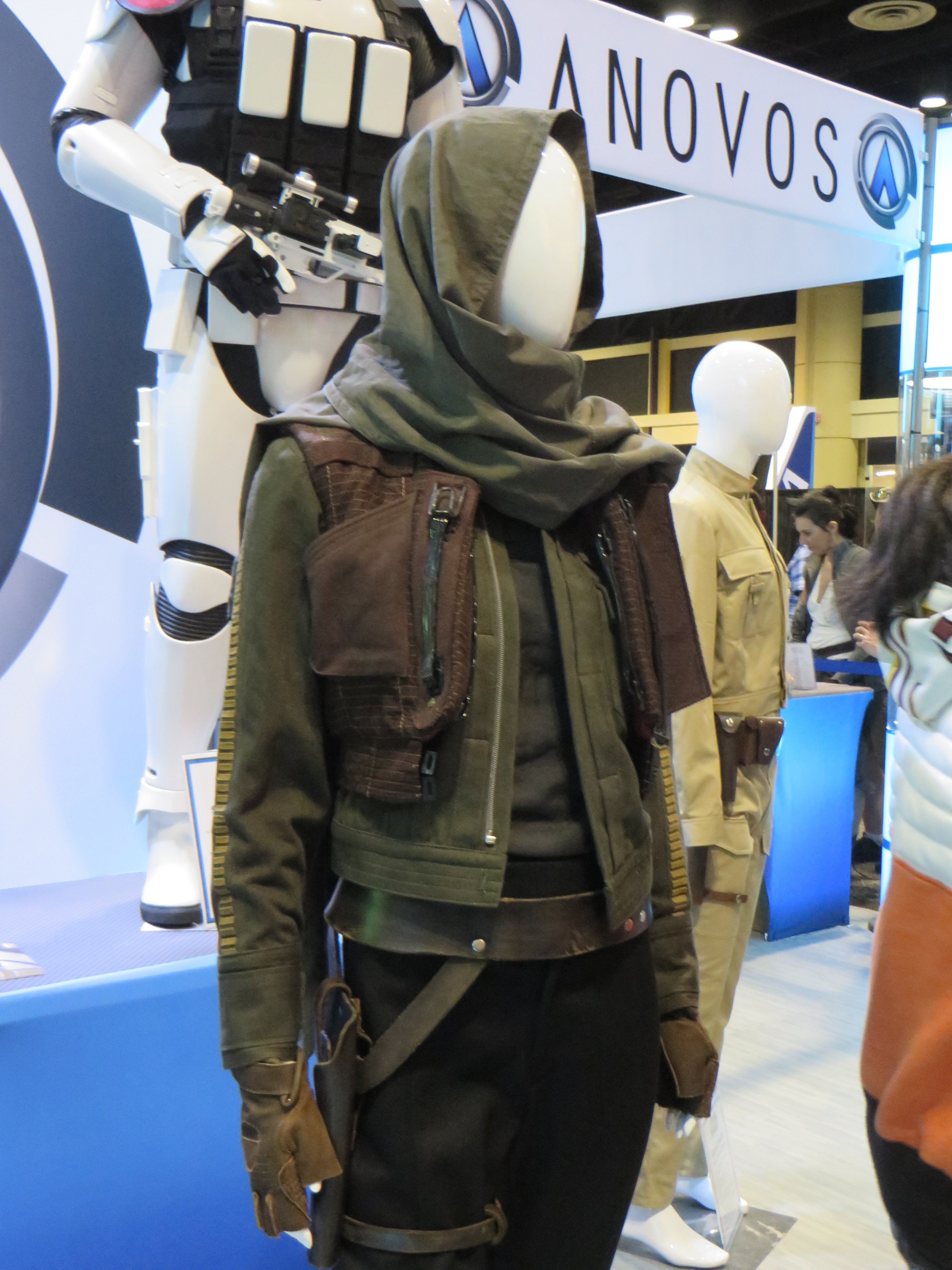 An Anovos Jyn Erso Costume Ensemble on display at the Anovos booth (3644) at Star Wars Celebration Orlando.